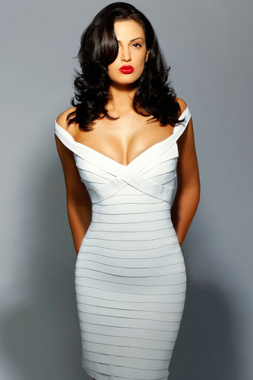 Bleona Qereti taken during photo shoot